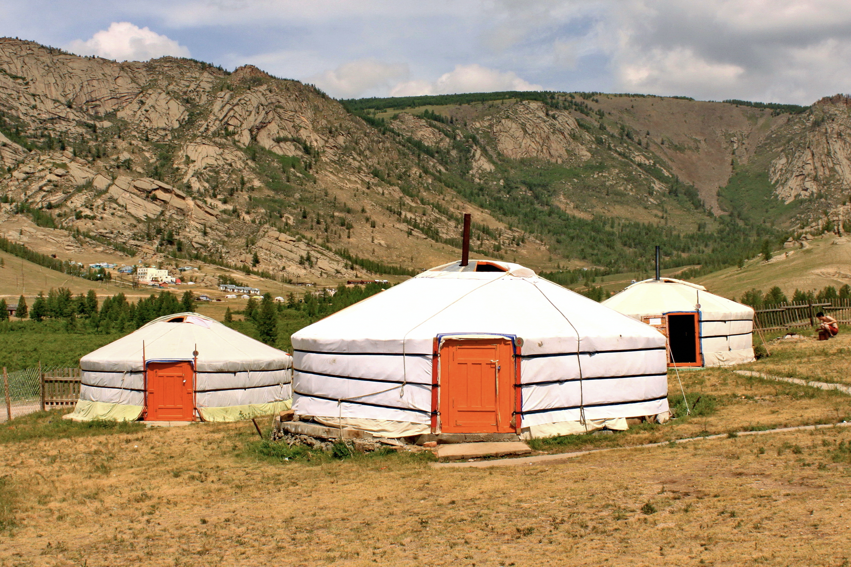 Yurts. Gorkhi-Terelj National Park. Mongolia.